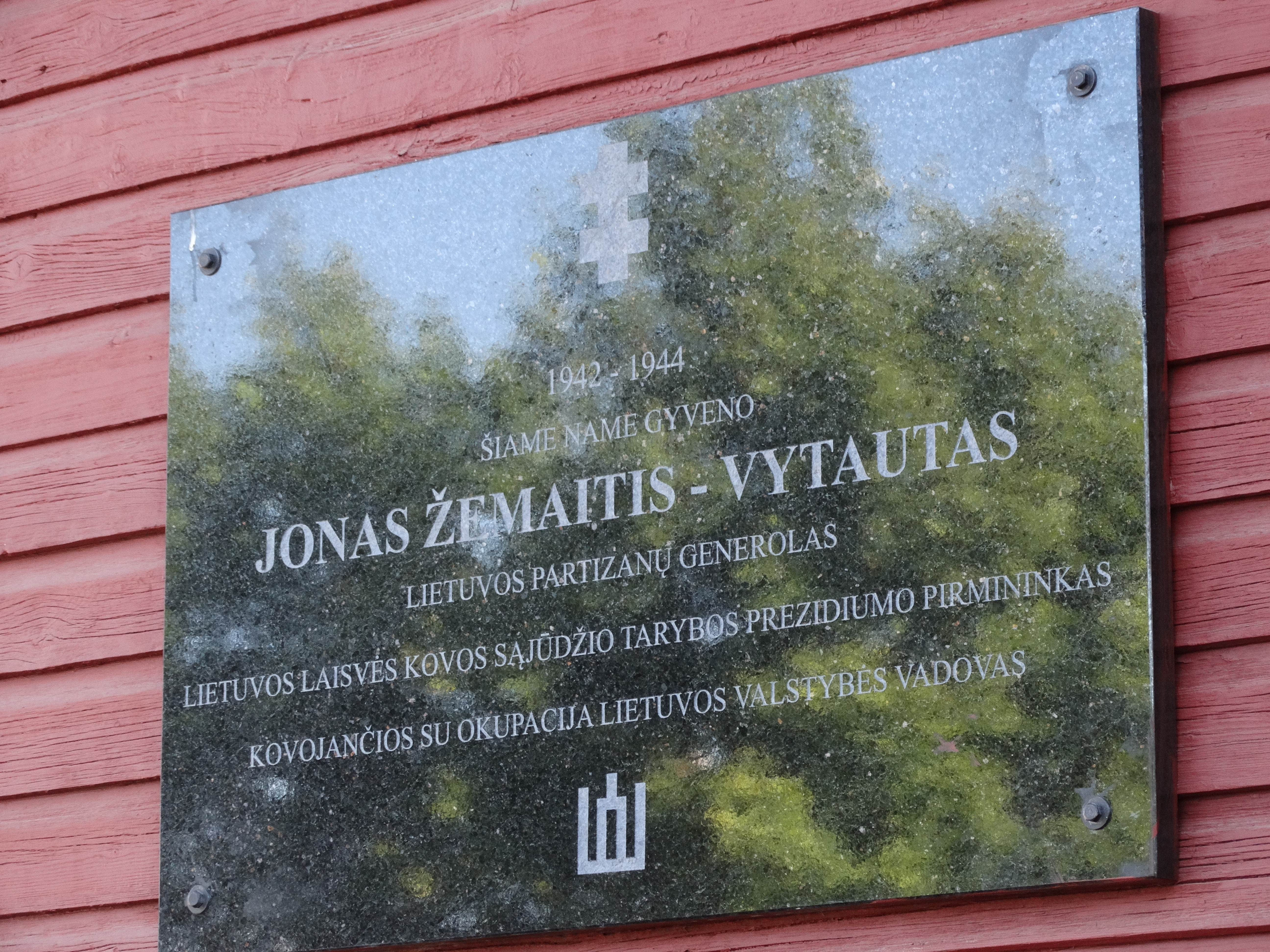 Jonas Žemaitis-Vytautas, Šiluva, Raseiniai district, Lithuania